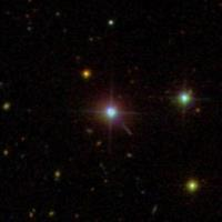 Sloan Digital Sky Survey image of quasar 3C273